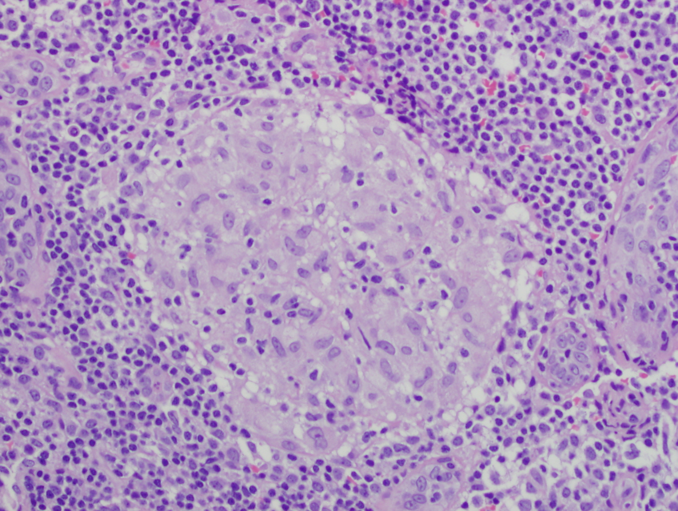 Non-necrotizing granuloma in a lymph node (20x objective lens)